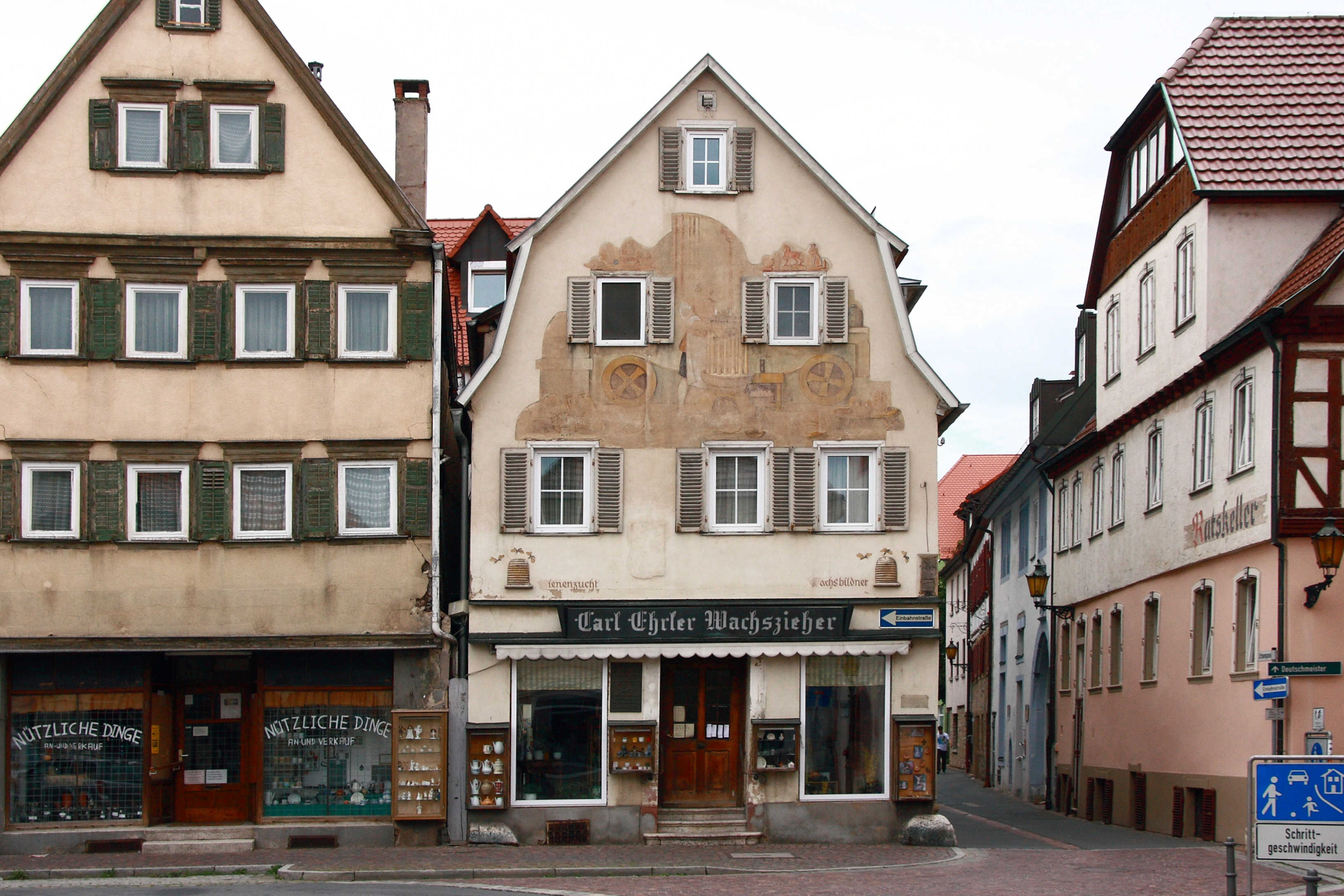 House of birth of the German author Hans Heinrich Ehrler at Bad Mergentheim. Mural painting of a wax-chandler by Karl Maria Lechner.